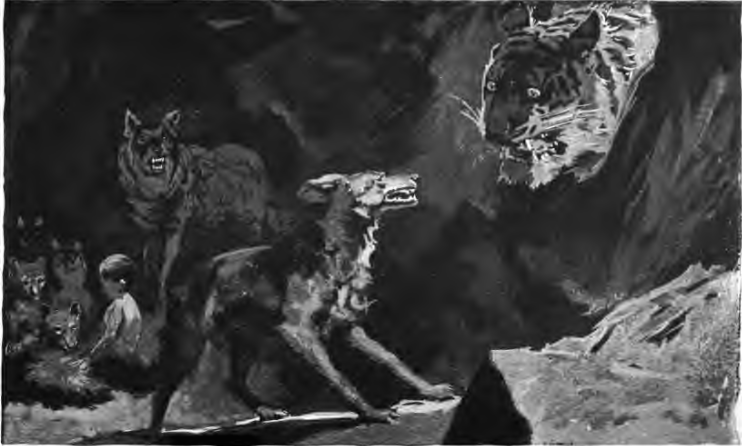 "The tiger's roar filled the cave with thunder."